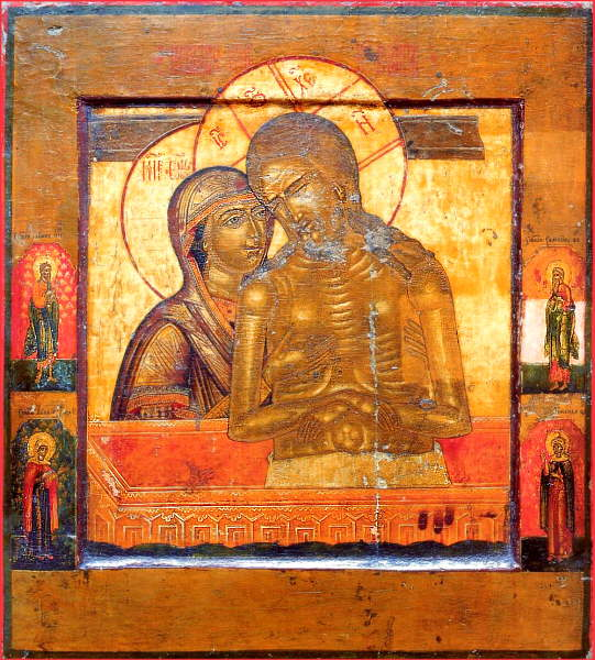 ‘Do not cry for Me, Mother…’. Icon